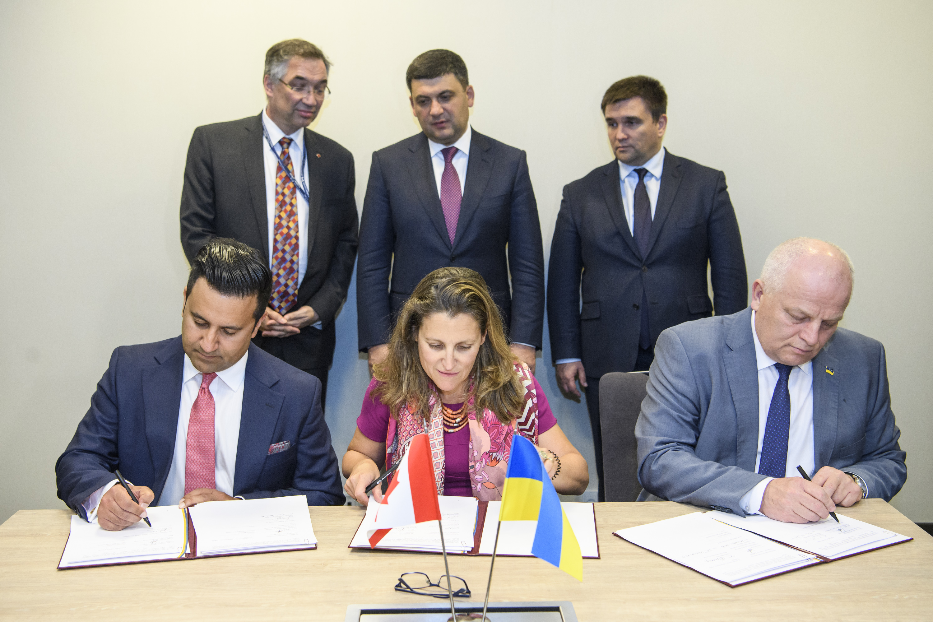 Prime Minister Volodymyr Groysman in Denmark held talks with Minister for Foreign Affairs of Canada Chrystia Freeland. During the negotiations, a Letter of Intent was signed between ICORE Energy Services, the Government of Ukraine and the Government of Canada.